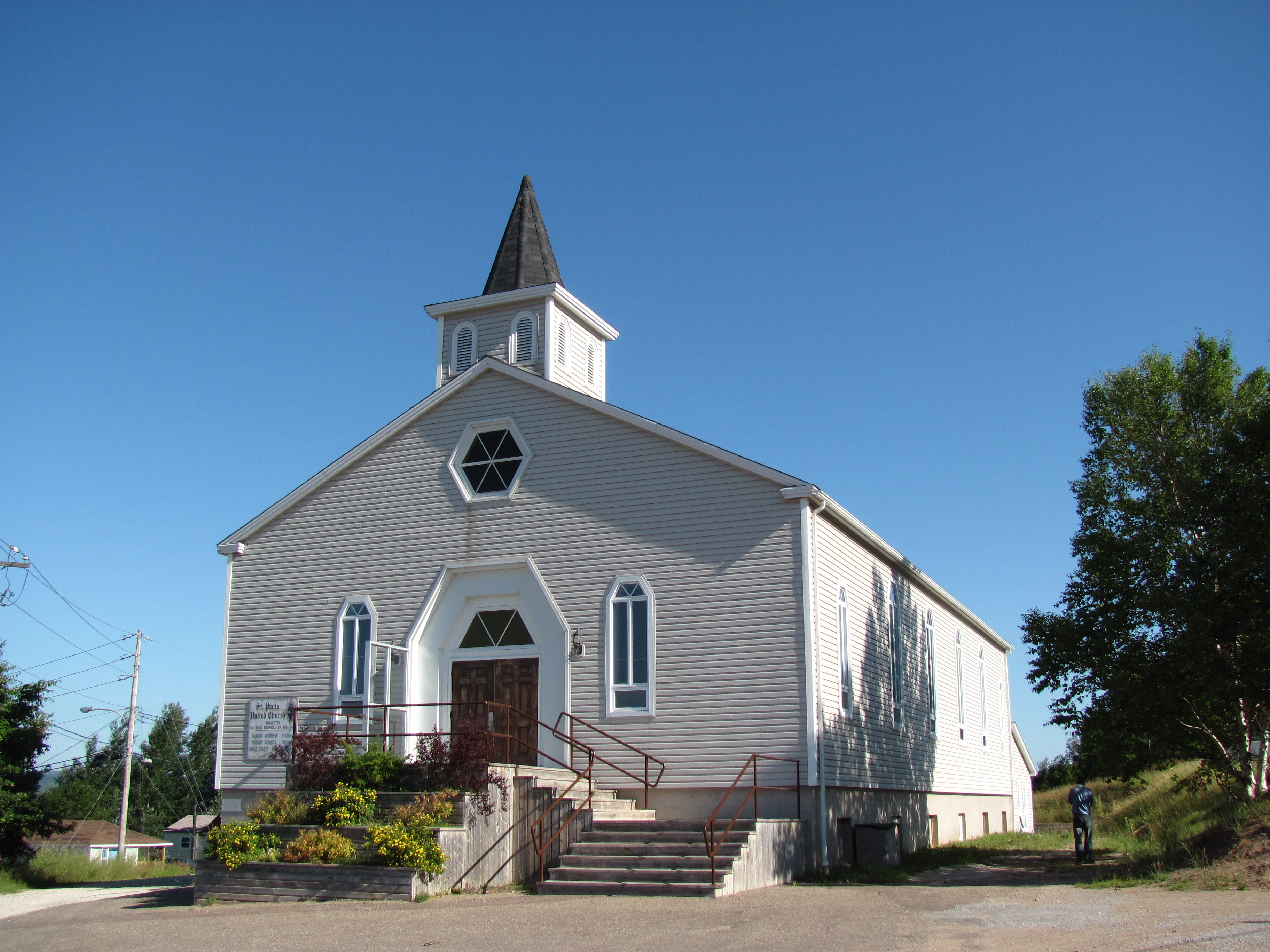 St. Paul's United Church, Deer Lake, Newfoundland, Canada